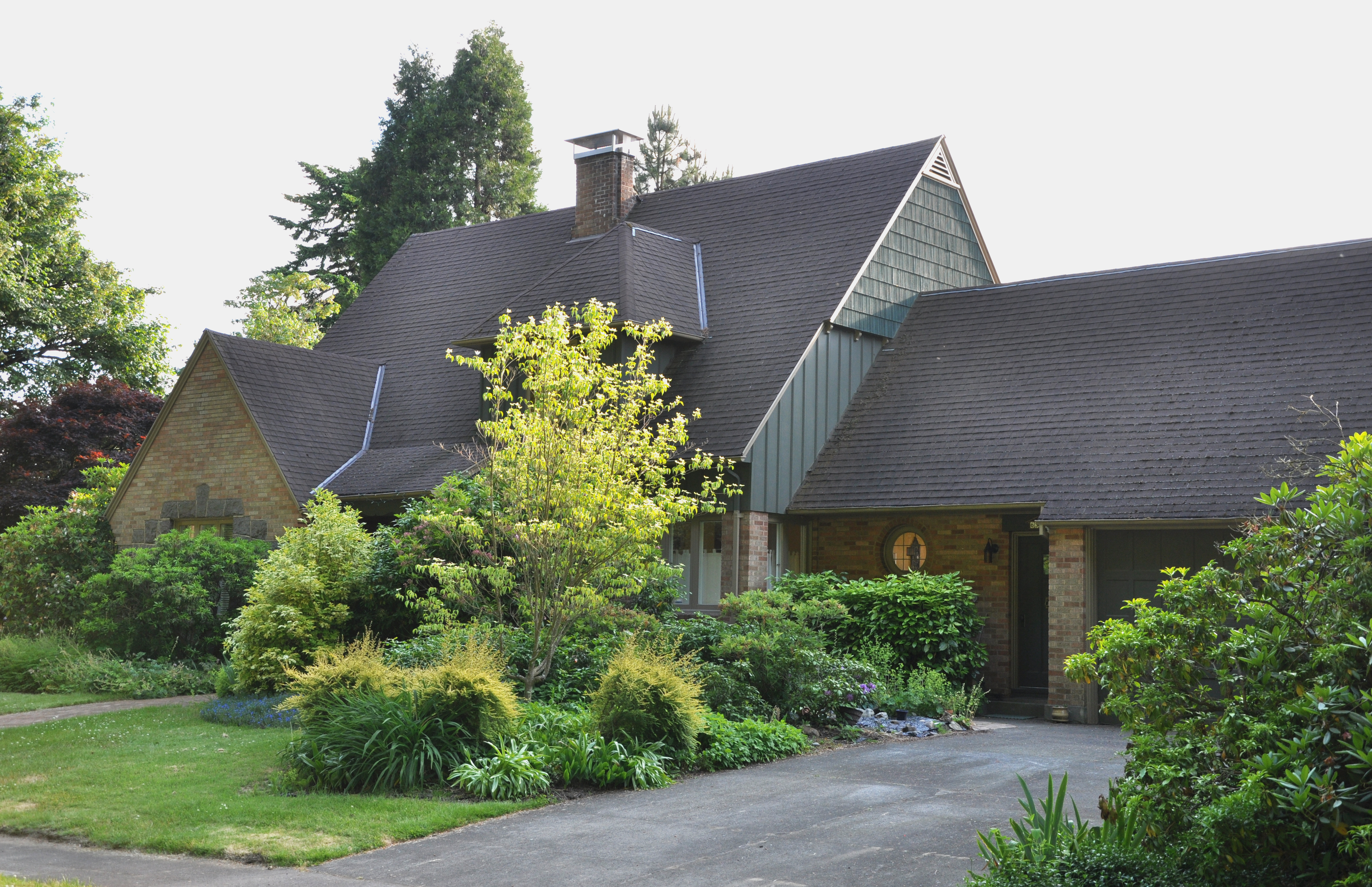 William B. Holden House in Portland in the U.S. state of Oregon. The structure is on the National Register of Historic Places.